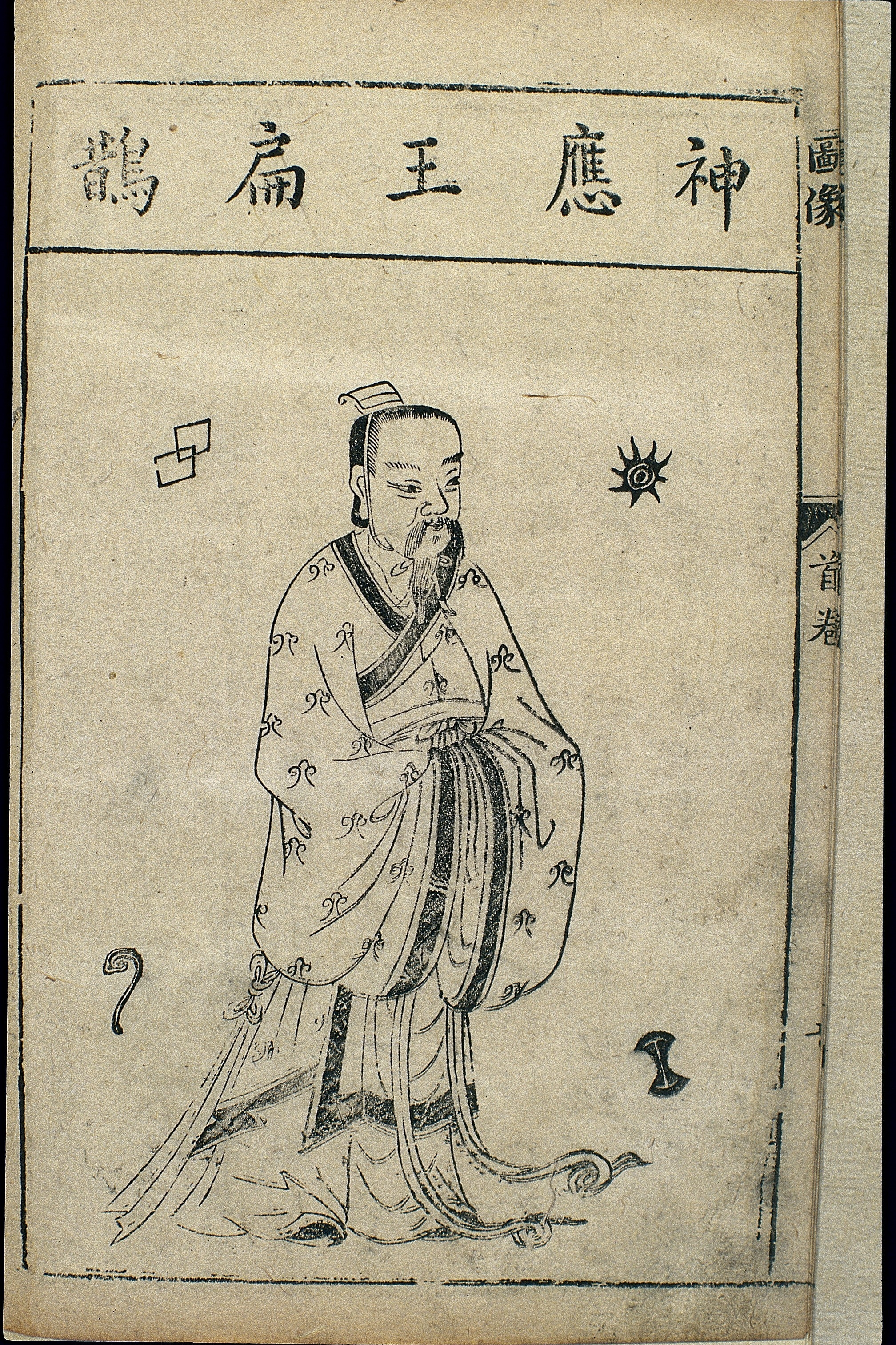 One of a series of woodcuts of illustrious physicians and legendary founders of Chinese medicine from an edition of Bencao mengquan (Introduction to the Pharmacopoeia), engraved in the Wanli reign period of the Ming dynasty (1573-1620) -- Volume preface, 'Lidai mingyi hua xingshi' (Portraits and names of famous doctors through history). The images are attributed to a Tang (618-907) creator, Gan Bozong. The account in 'Portraits and Names of Famous Doctors through History' states: Qin Yueren, known as Bian Que, was a native of Bohai in Luguo. Having studied Huangdi neijing (Inner Canon of the Yellow Emperor), he wrote Bashiyi nanjing (Classic of Eighty-One Difficulties) as a commentary on that work. According to tradition, Bian Que learnt his medical skills from Zhang Sangjun. One day, Zhang Sangjun said to Bian Que, 'I have a prescription that I had hoped to pass on to my son when I grew old. If you take some of the prescription from this cup, and drink it with the water from this pool, in thirty days you will have knowledge of things.' Bian Que did as he said, and from then on, when he examined a patient, he was able to see into the viscera to discover the cause of the disease.Woodcut By: Gan Bozong (Tang period, 618-907)